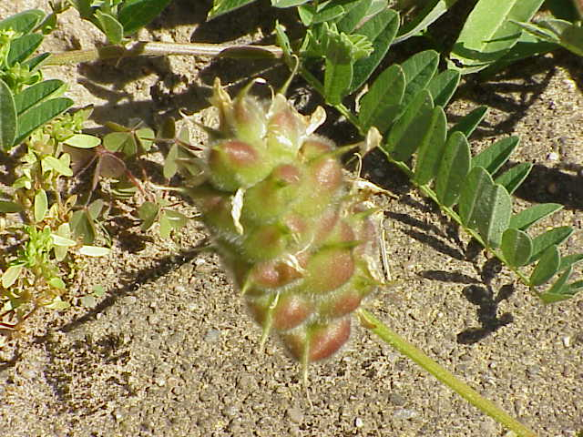 Species: Astragalus cicer Family: Fabaceae Image No. 1